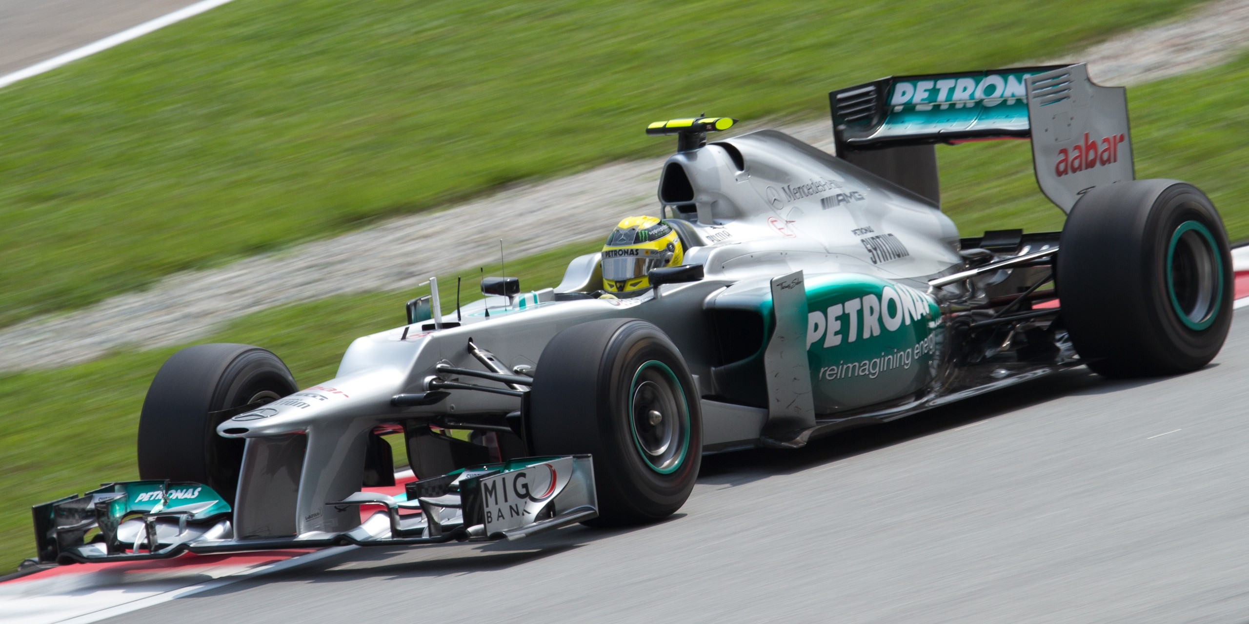 Formula One 2012 Rd.2 Malaysian GP: Nico Rosberg (Mercedes) during the first practice session on Friday.